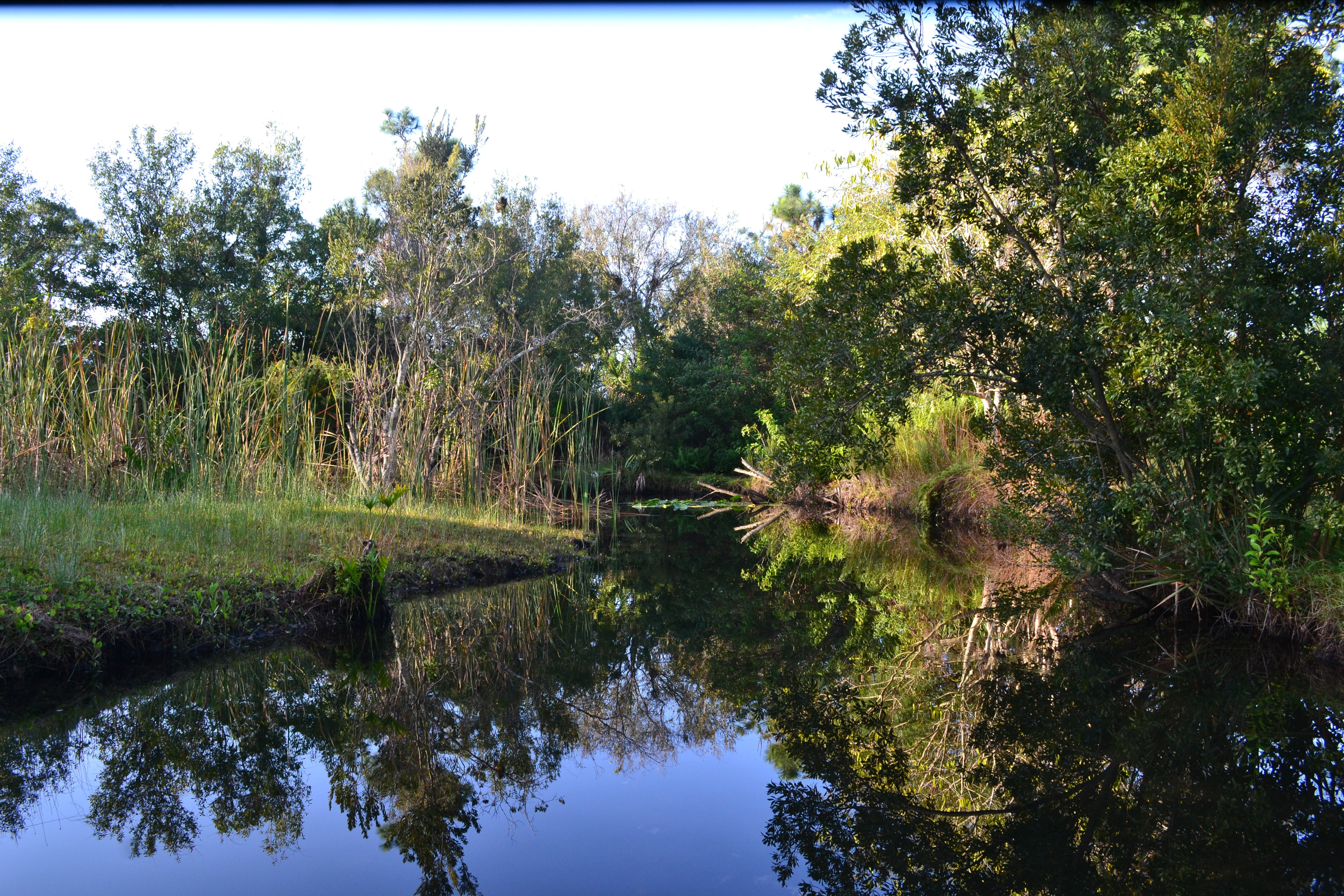 A pond in Florida in the morning.